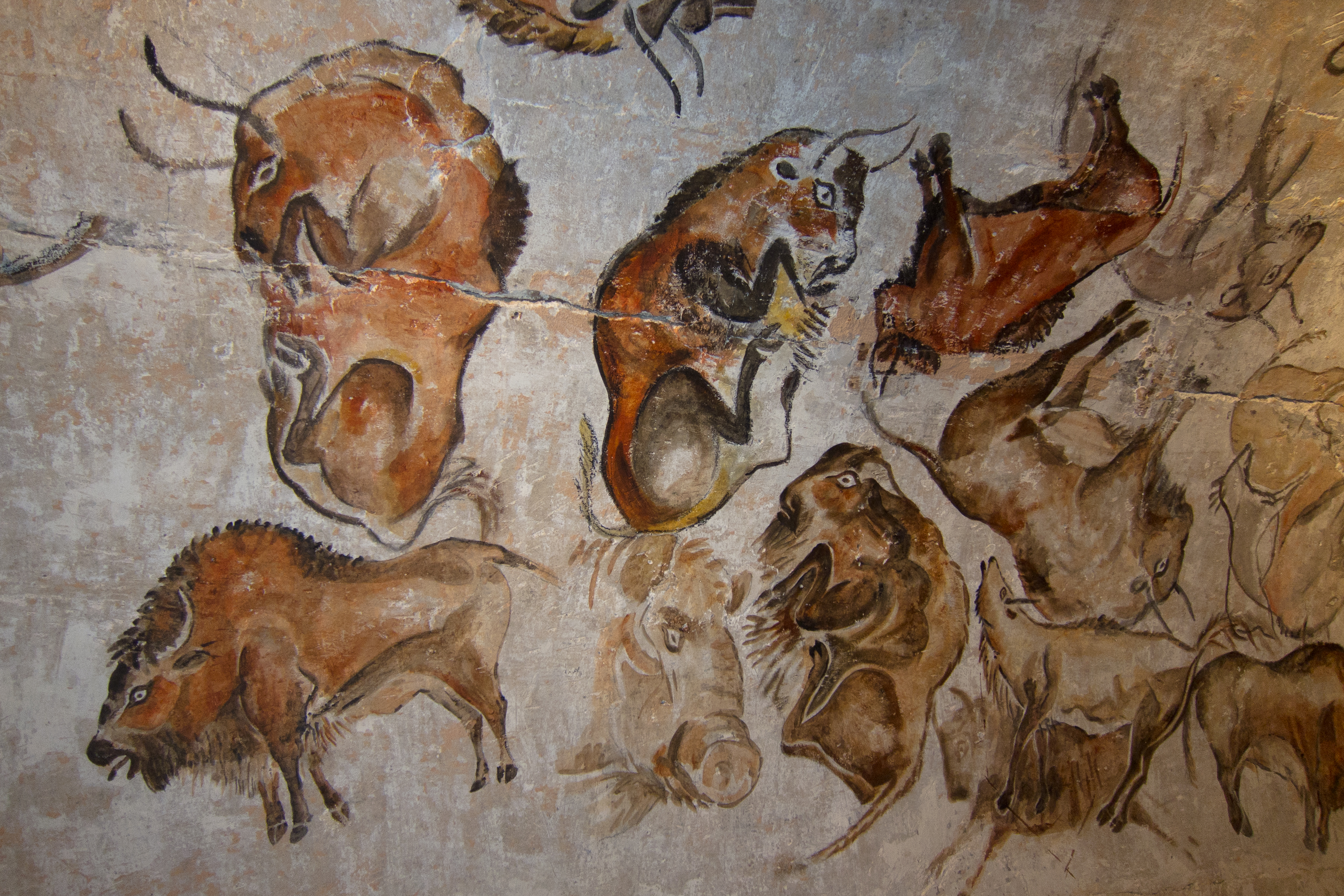 Reproductions at the Museo del Mamut, Barcelona 2011